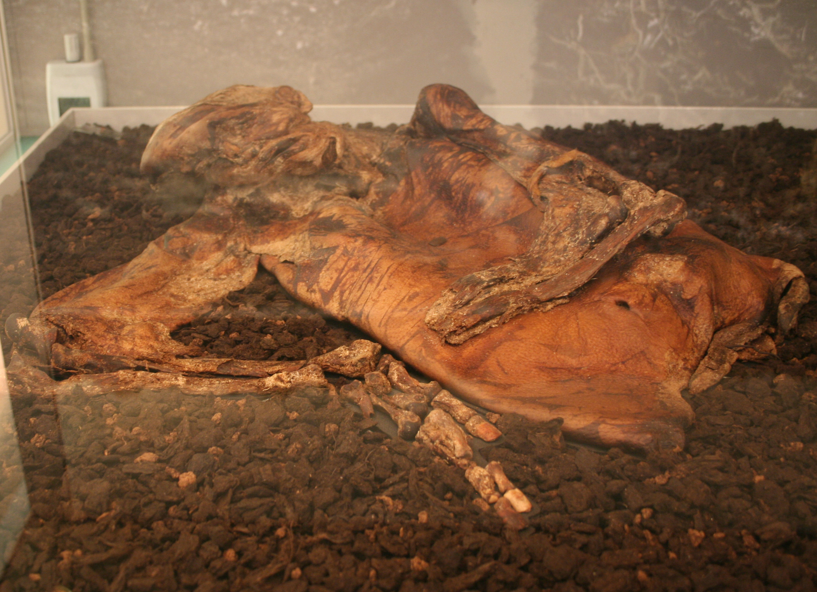 The Lindow Man